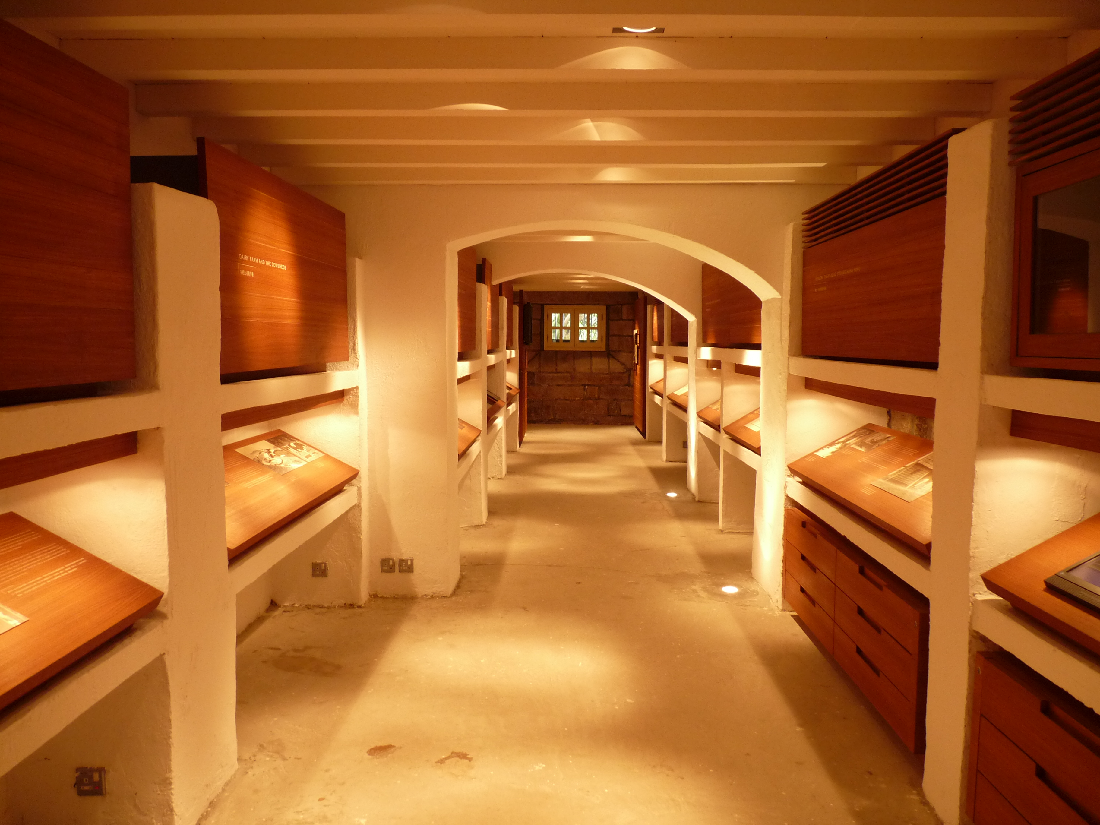 The basement of Bethanie, Hong Kong was converted from a wine cellar to a museum. It exhibits Bethanie's historical information and some video clips.